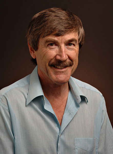 Paul Davies; originally uploaded here in wiki en